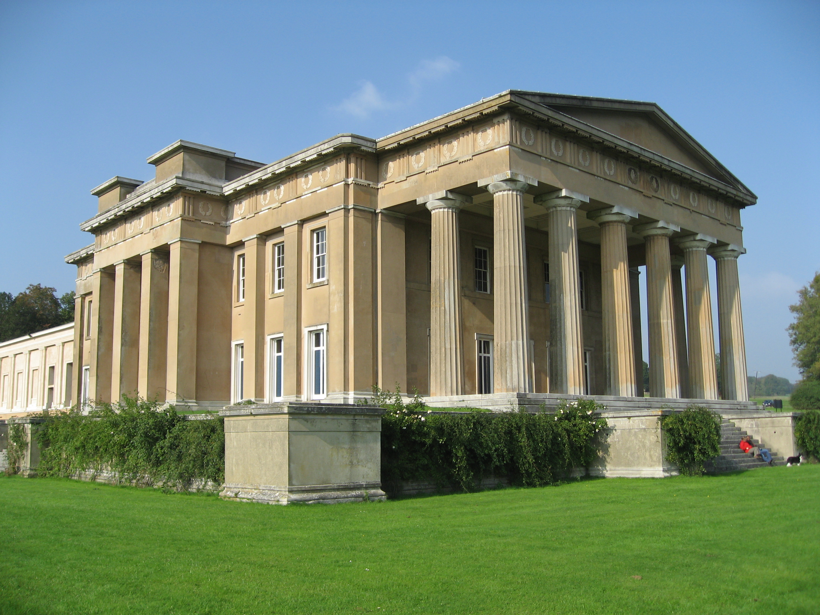 Northington Grange, Hampshire